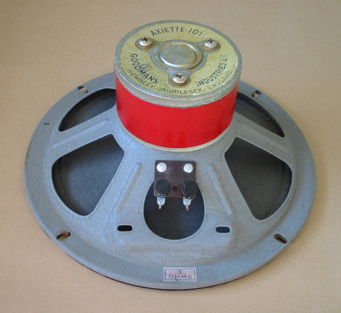 Goodmans Axiette speaker was one of the first of the single-cone truly full-range drivers with smooth and extended response of 40 Hz to 15 kHz. Goodmans Axiette was Ted Jordan's first project for Goodmans after joining them in 1952.